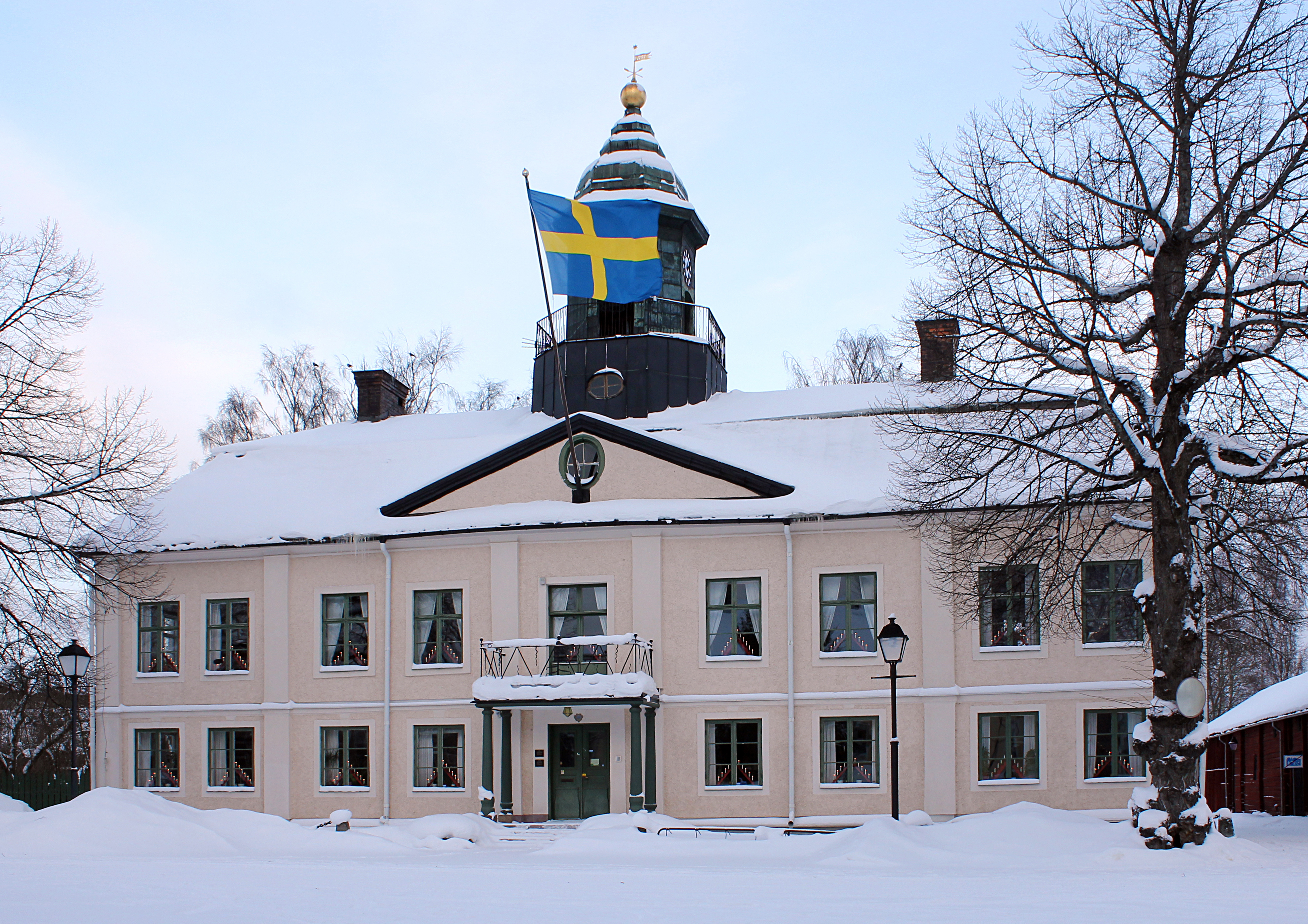 Town hall of Hedemora, Dalarna, Sweden